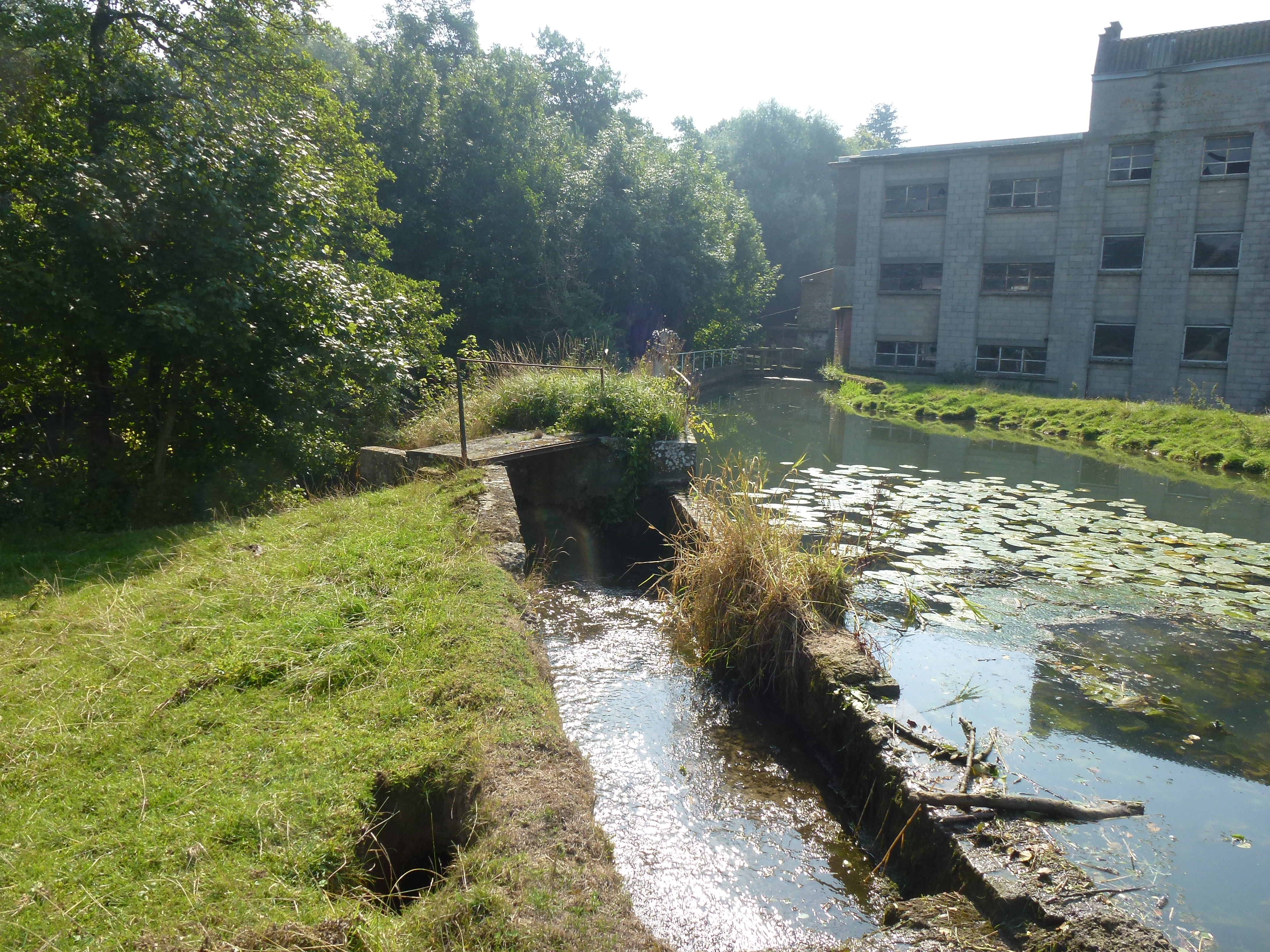 Tournehem-sur-la-Hem (Pas-de-Calais) moulin à eau de Guémy